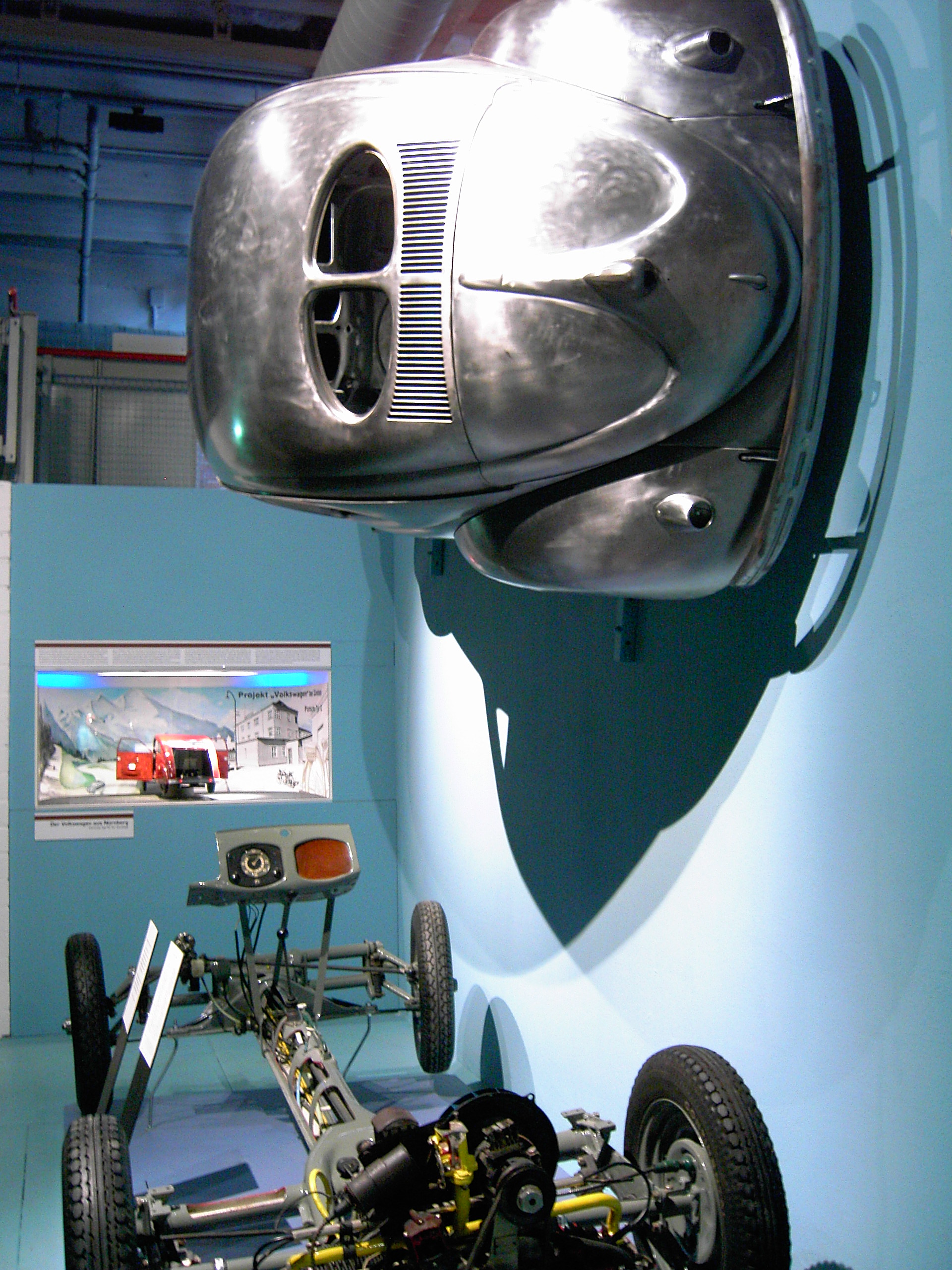 Early post-war "Pretzel"-Volkswagen Type 1 chassis and car body (in the background: scale model of Porsche Typ 12 (1931/32) made by Zündapp, Nuremberg)